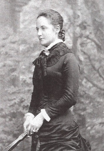 Margaret-Emma Robertson (Myklukha-Maclay), wife of Mykola Mykolayovych Myklukha-Maclay